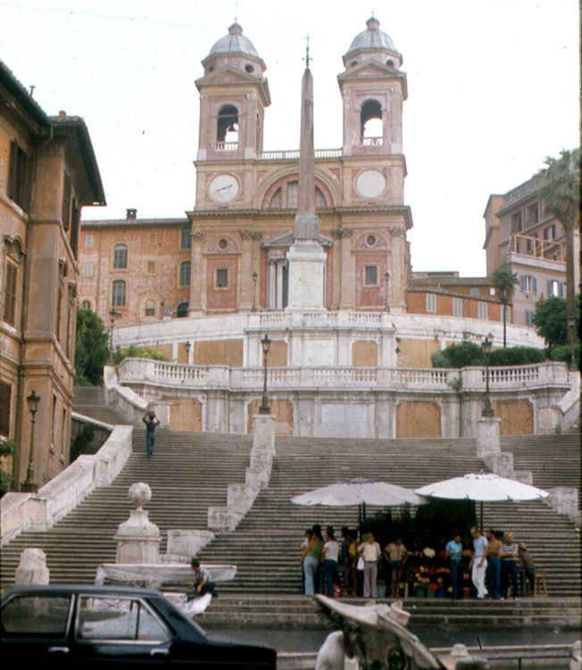 The Spanish Steps, at Piazzi di Spagna in Rome, were built in 1723-1725.